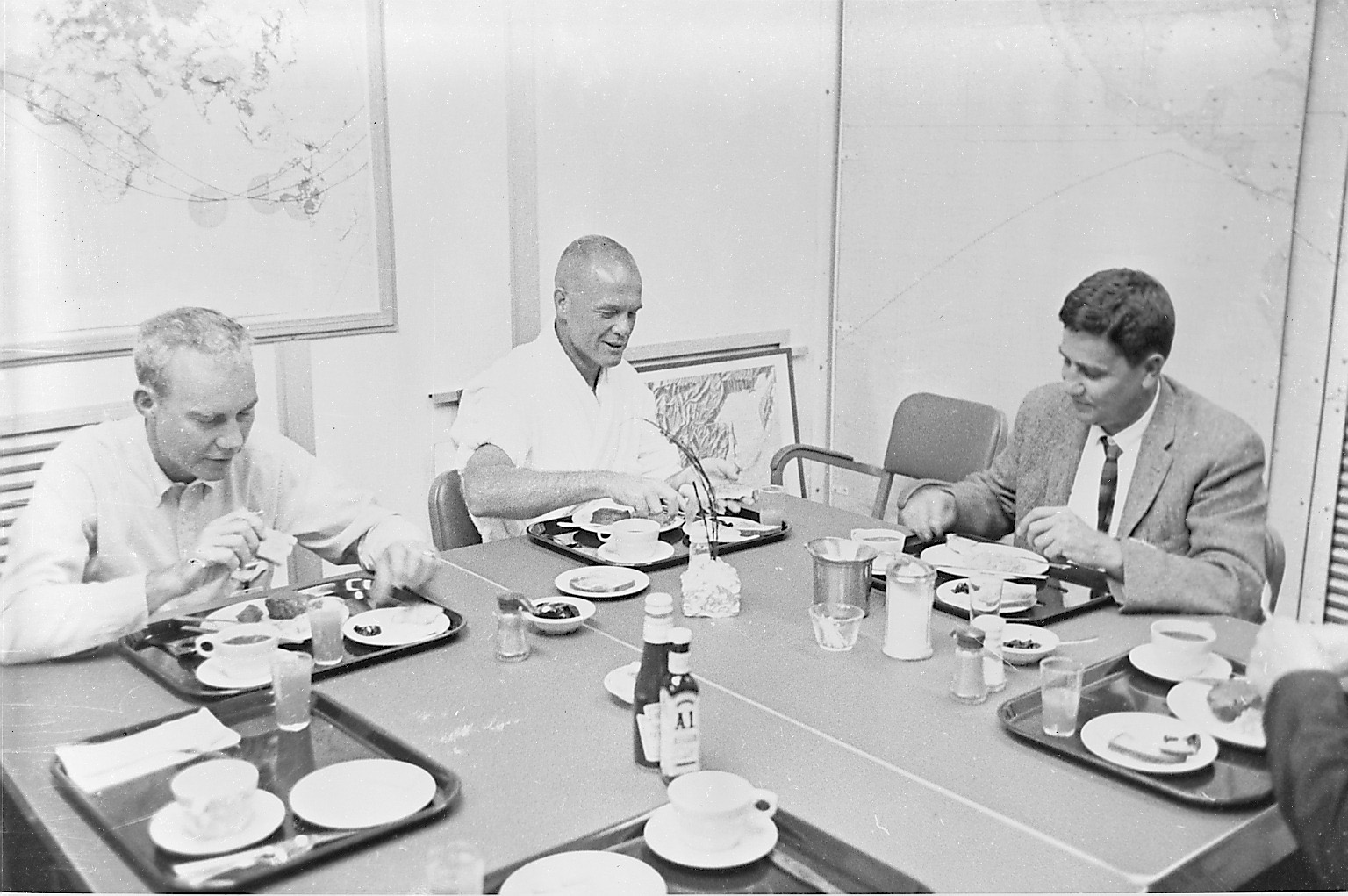 Astronaut John H. Glenn Jr. (center) eats breakfast the morning of the launch of his Mercury-Atlas 6 spacecraft. Dr. William K. Douglas is at right.